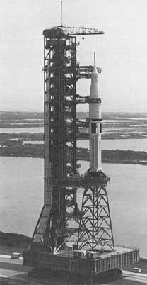 The Saturn IB rocket was revived to launch Apollo crews to the Skylab space station in 1973. Unfortunately the original LC 34 launch pad was dismantled so a "Milkstool" was manufactured in order to let the short Saturn IB reach the umbilical intended for the taller Saturn V on LC 39B. The "milk-stool" was used three times in 1973 for Skylab crews and one time in 1975 for the Apollo-Soyuz Test Programme. This image shows the Saturn IB SA-207 rocket being moved to the launch pad, 11 June 1973.